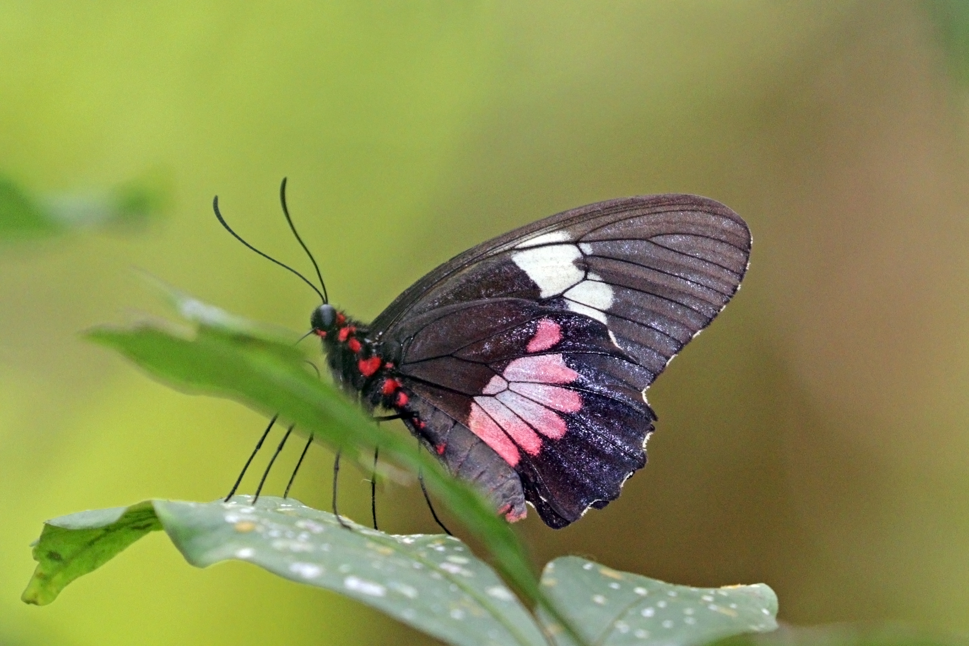 Variable cattleheart (Parides erithalion smalli) female, Soberania National Park, Panama